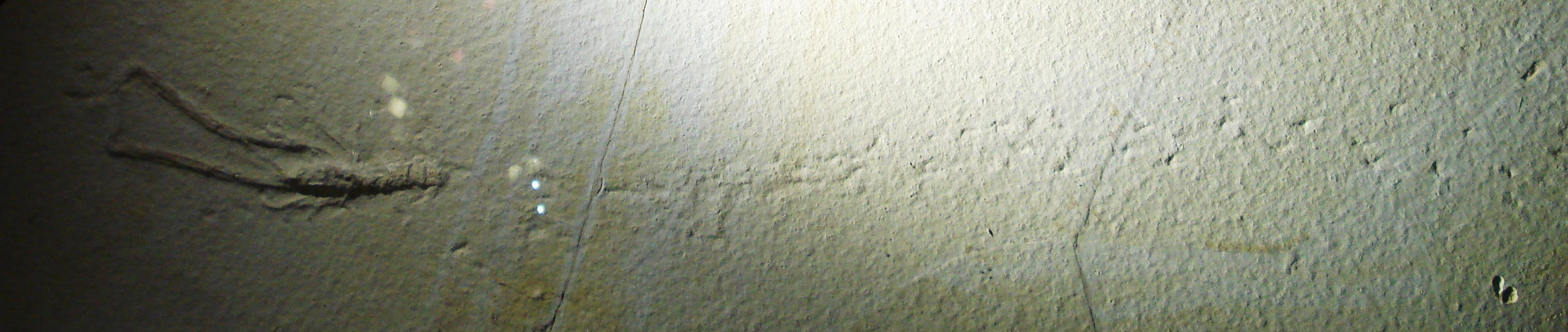 fossil of Mecochirus longimanatus